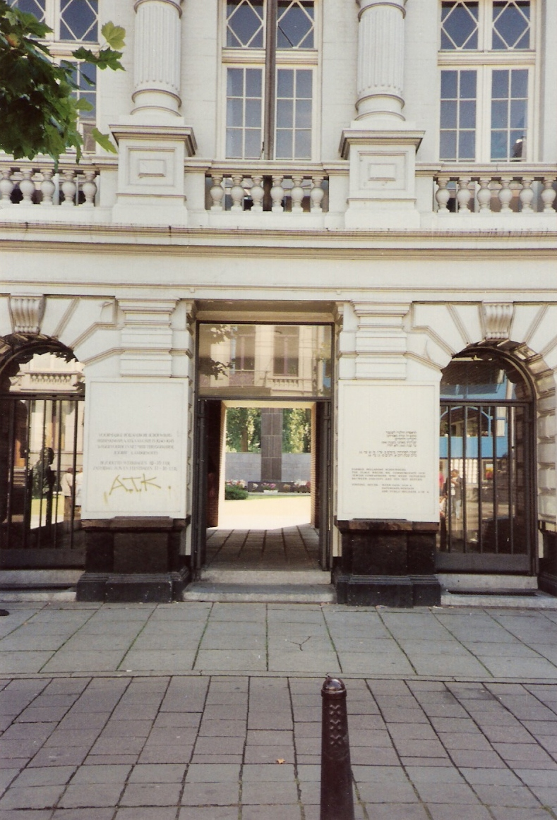 Hollandish Theatre, Amsterdam